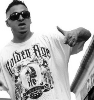 Rapper Duke Montana